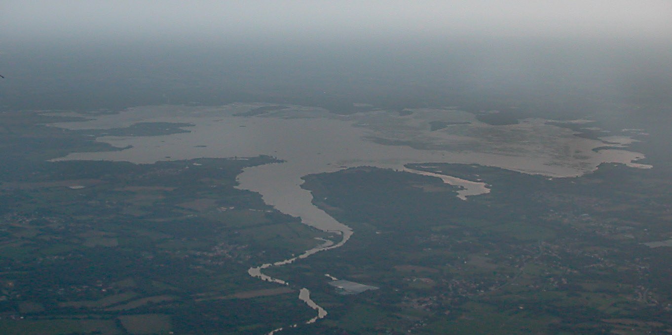 lac de Grand-Lieu see from sky ; This lake is located in west of France, at about ten kilometers south of Loire. It occupies a basin of low altitude and low depth. It is therefore only low water level (1.60m of water on average in summer, and about 4m max. In winter). Its size doubles in winter (from about 35 sq km in summer to 65 sq km in winter), which explains important ecological characteristics. The lake supports floating forests locally called levis, and it is ecologically highly inter-connected to the near marshes